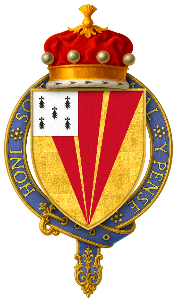 Coat of Arms of Sir Ralph Basset, 4th Baron Drayton, KG “ Ralph Lord Basset of Drayton… Arms: Or, three piles, the points meeting in base, Gules, a quarter Ermine. ” BELTZ, George Frederick, Memorials of the Order of the Garter from Its Foundation to the Present Time, London: William Pickering, 1841. “ Sir Ralph Bassett, Lord Basset of Drayton… Gold three piles gules and a quarter ermine. ” ST. JOHN HOPE, W. H., The Stall Plates of the Knights of the Order of the Garter 1348 – 1485: A Series of Ninety Full-Sized Coloured Facsimiles with Descriptive Notes and Historical Introductions, Westminster: Archibald Constable and Company LTD, 1901.